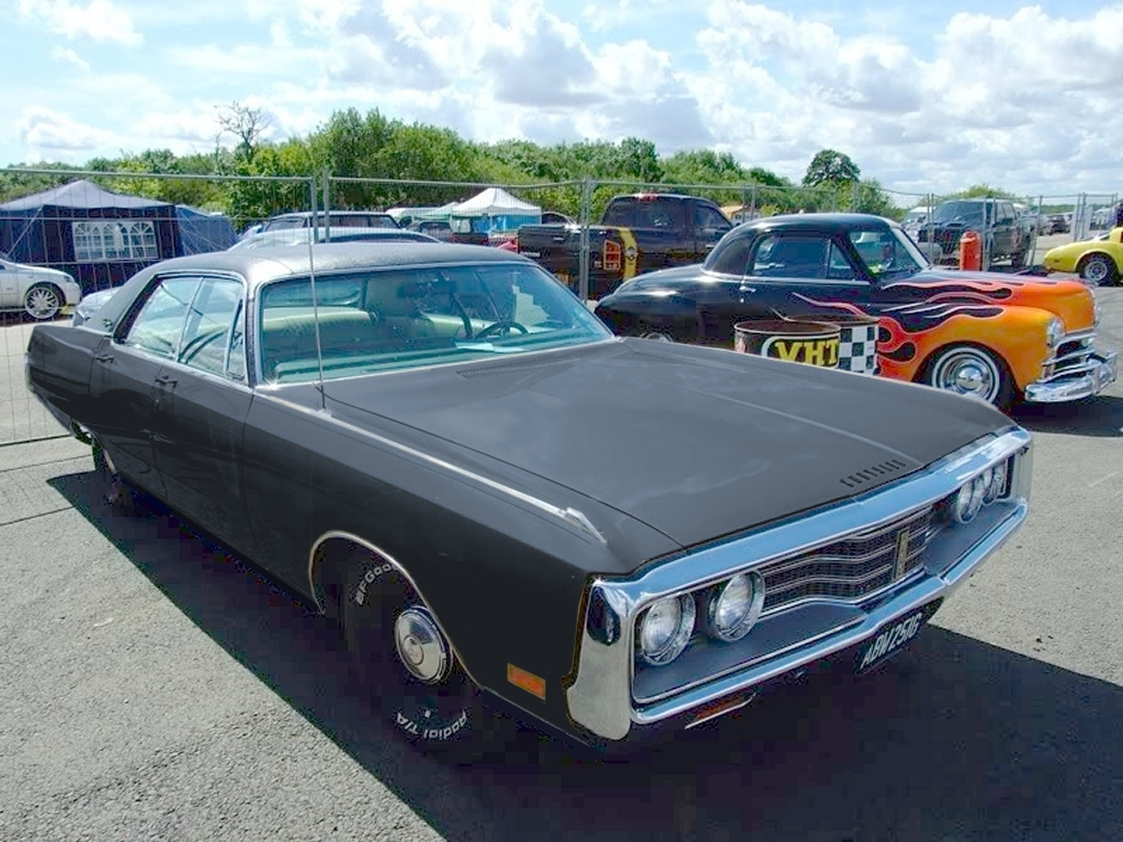 Looks great with these caps!